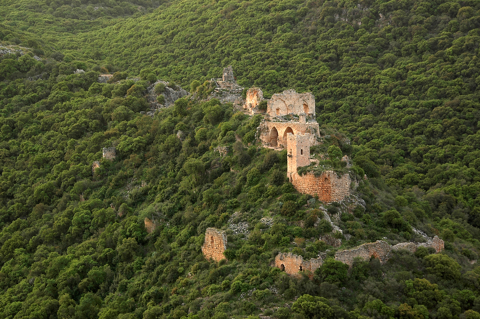 Monfort castle, Geography of Israel